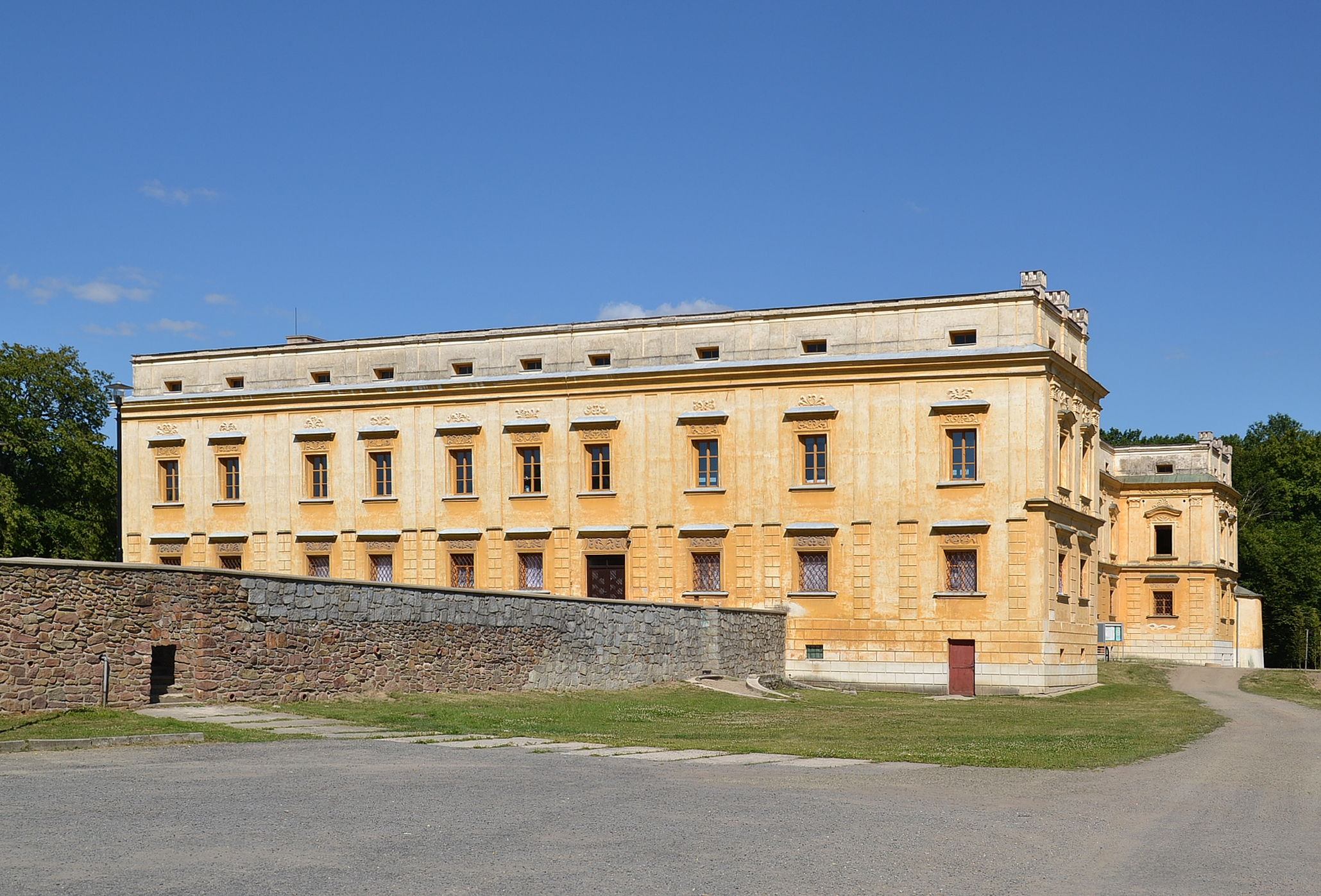 Chateau Slezské Rudoltice (Rosswald)